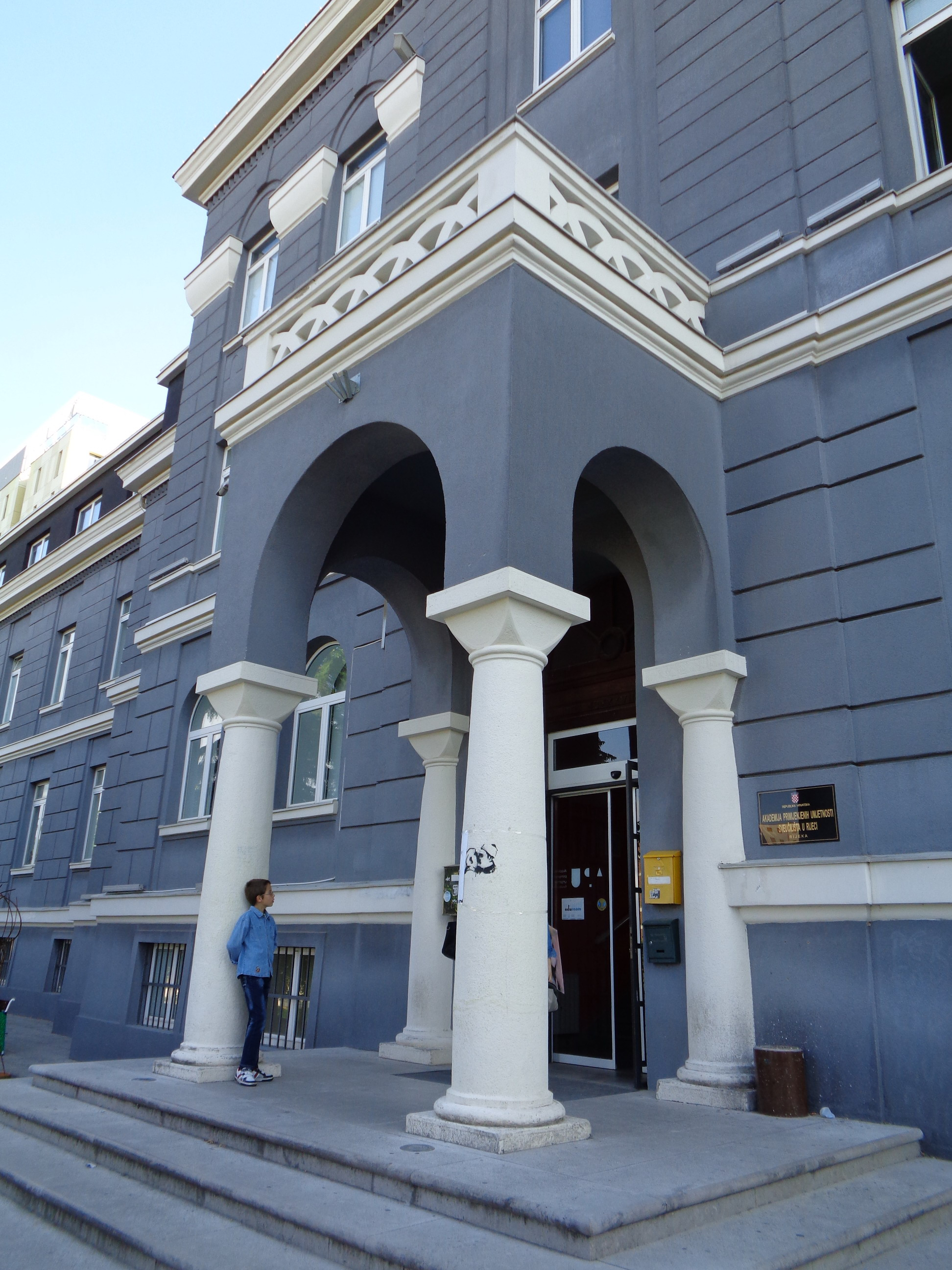 Rijeka University Academy of Applied Arts, Rijeka, Croatia - entranceHrvatski: Akademija primijenjenih umjetnosti Sveučilišta u Rijeci, Hrvatska - ulaz